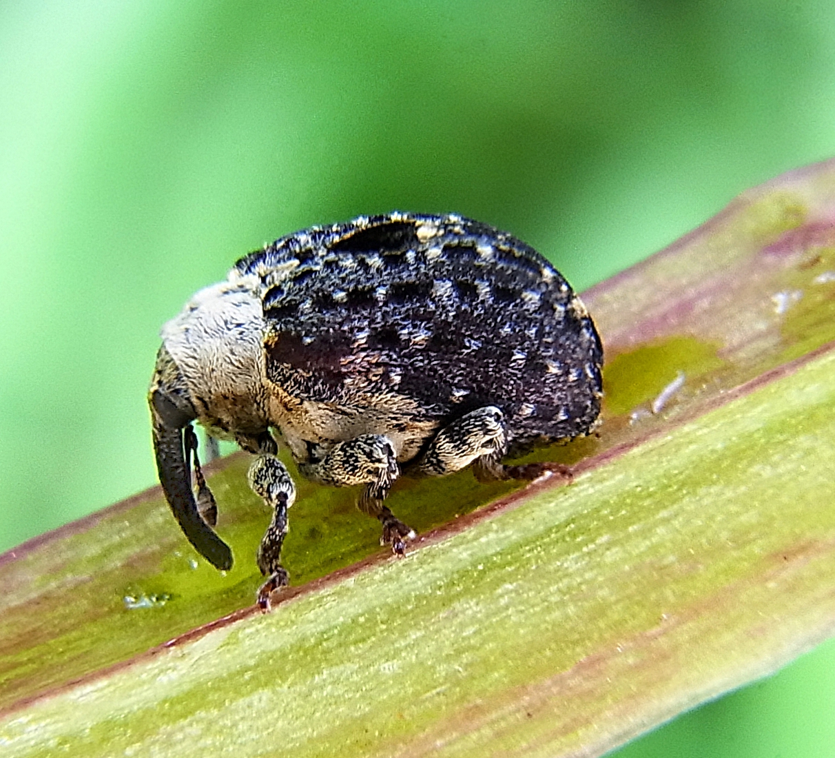 Cionus scrophulariae from Southern France, southeast of Millau at 2011-06-23